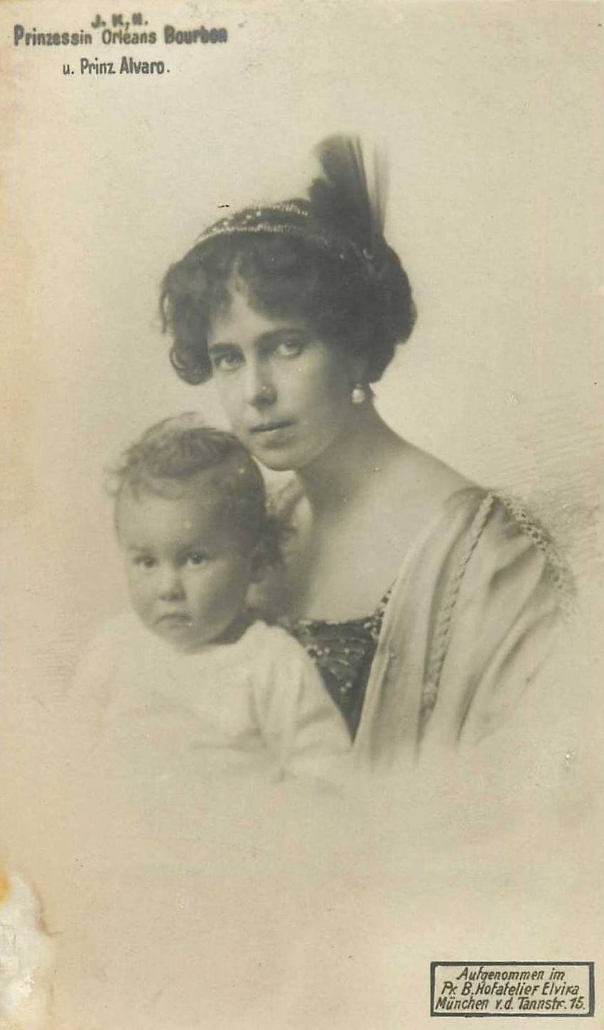 Princess Beatrice of Edinburgh and Saxe-Coburg-Gotha with son Alvaro